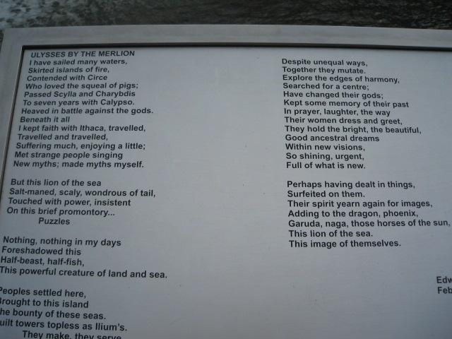 Part of the poem Ulysses By the Merlion (1979) by Singaporean poet Edwin Thumboo, on display beside the Merlion statue facing Marina Bay.